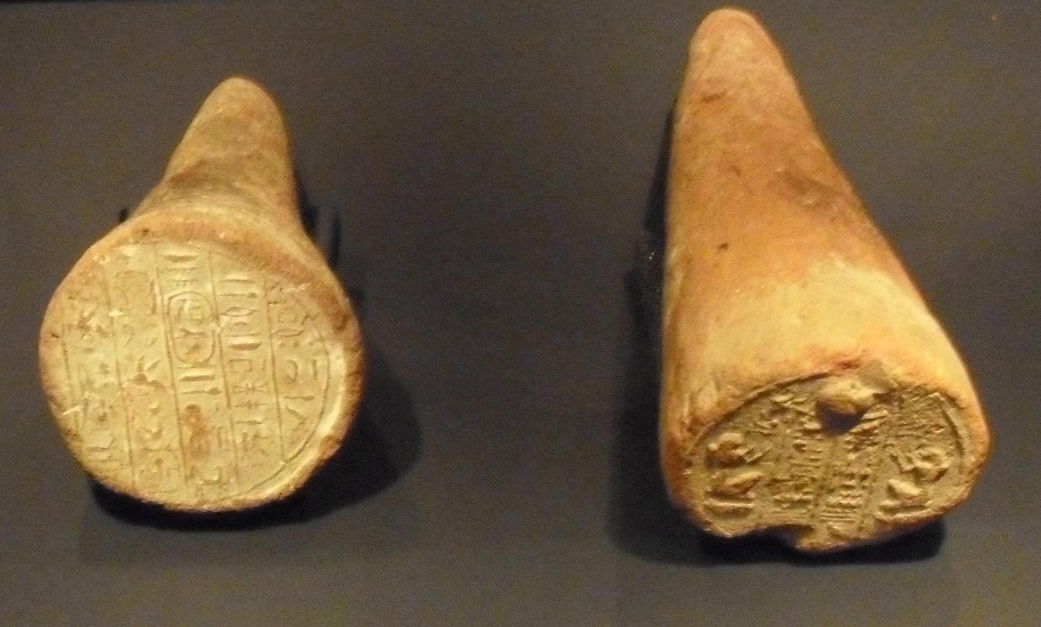 Ancient Egyptian funerary cones "Quest for Immortality - The World of Ancient Egypt" exhibition presented by National Museum of Singapore, in co-operation with Kunsthistorisches Museum Vienna, Egyptian and Near Eastern Department.